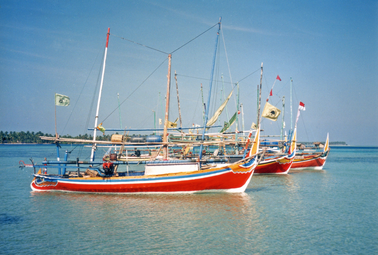 Fishing boats in Karimun Jawa harbour, Indonesia